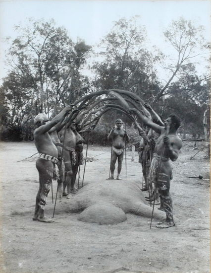 Title: Aboriginal bora ceremony